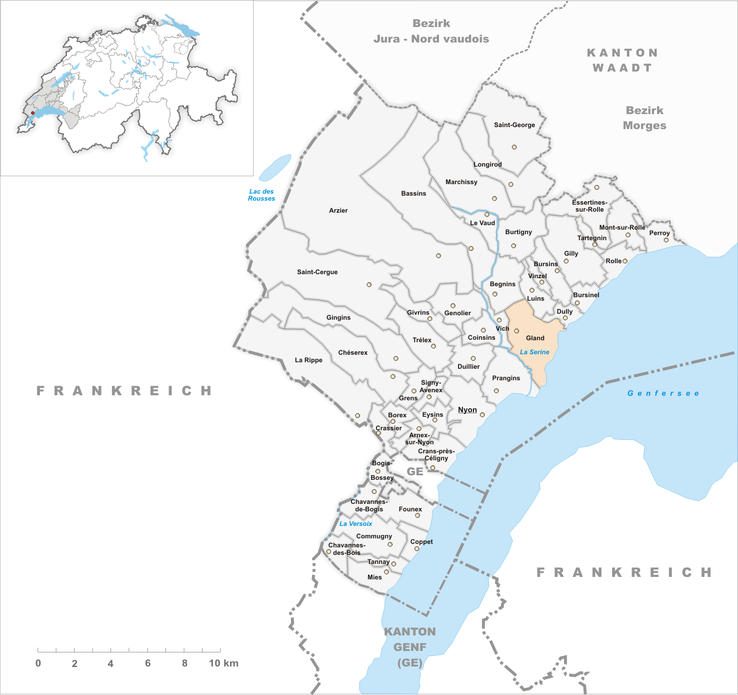 Municipality Gland